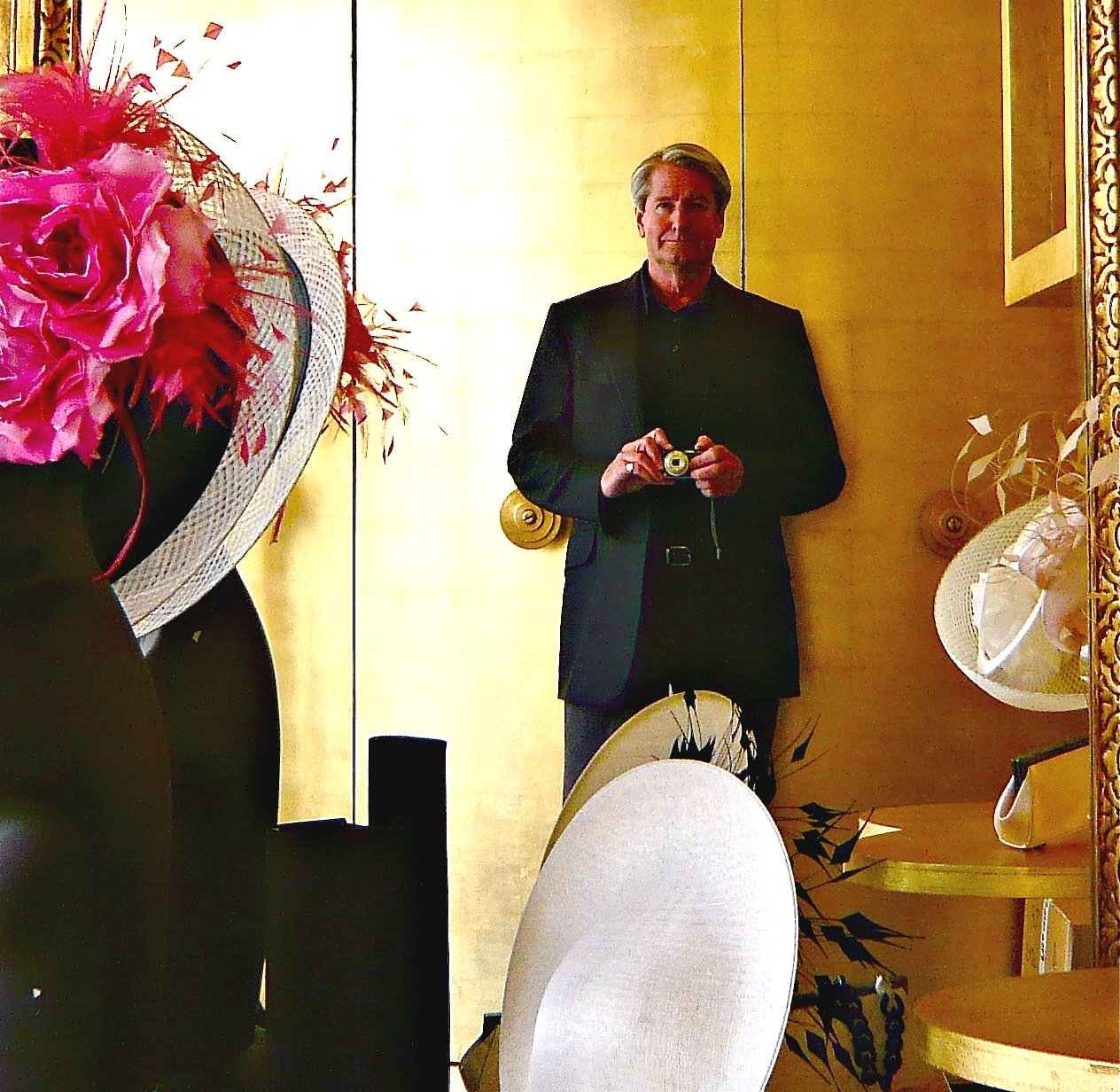 Hats by Philip Treacy (Self portraiture of Herry Lawford, surrounded by Philip Treacy hats)